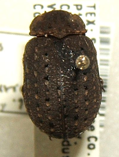 Omorgus howelli adult taken by Shawn Hanrahan at the Texas A&M University Insect Collection in College Station, Texas. Cropped and slightly enhanced from Omorgus howelli sjh.jpg.